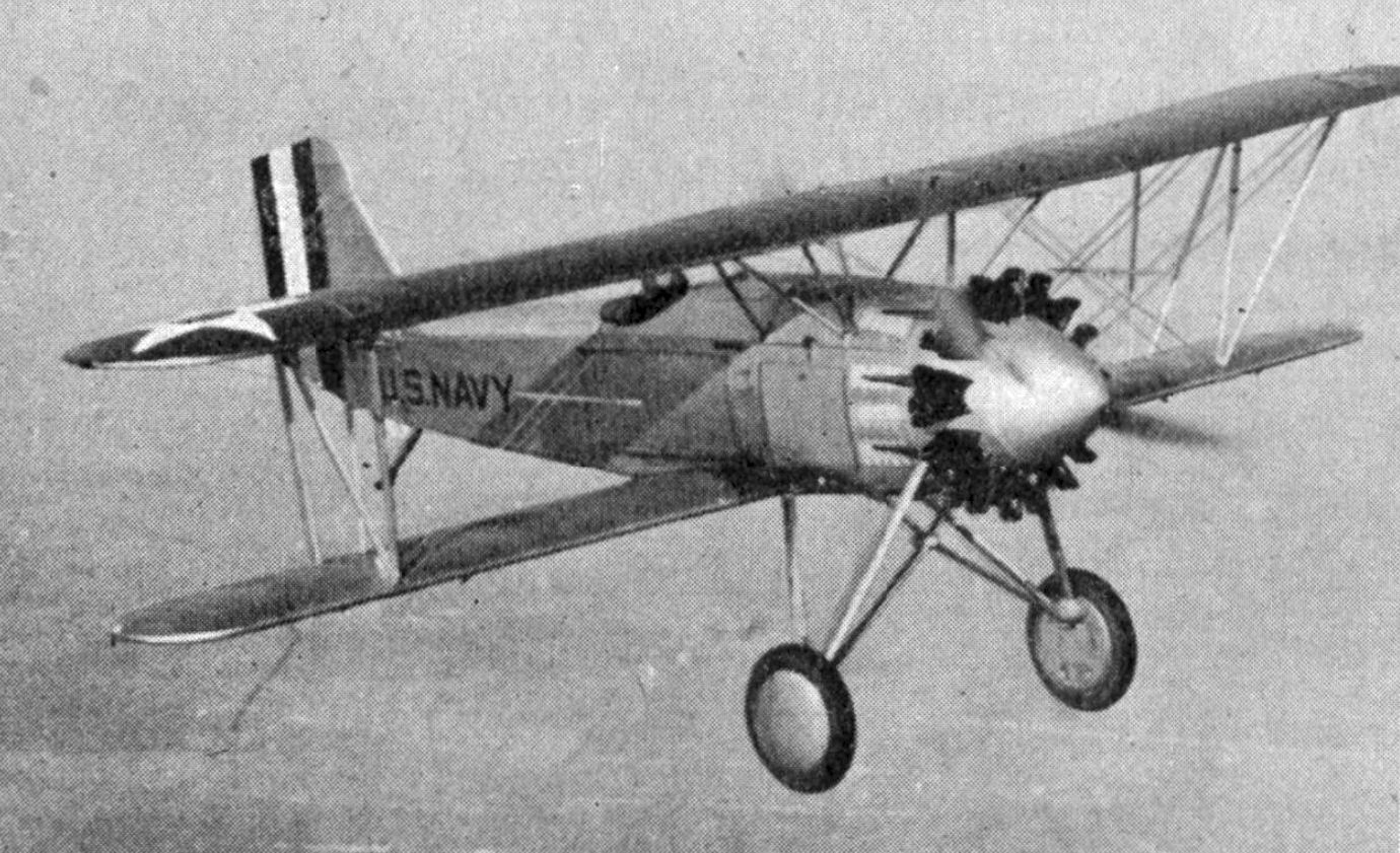 Curtiss F7C-1 photo from L'Aéronautique July,1927